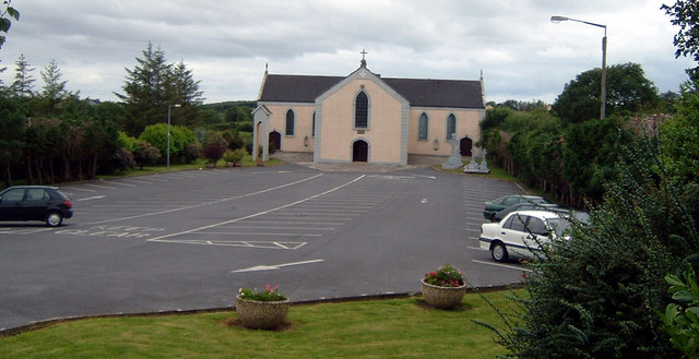 Church Cooraclare A very big car park for a church!